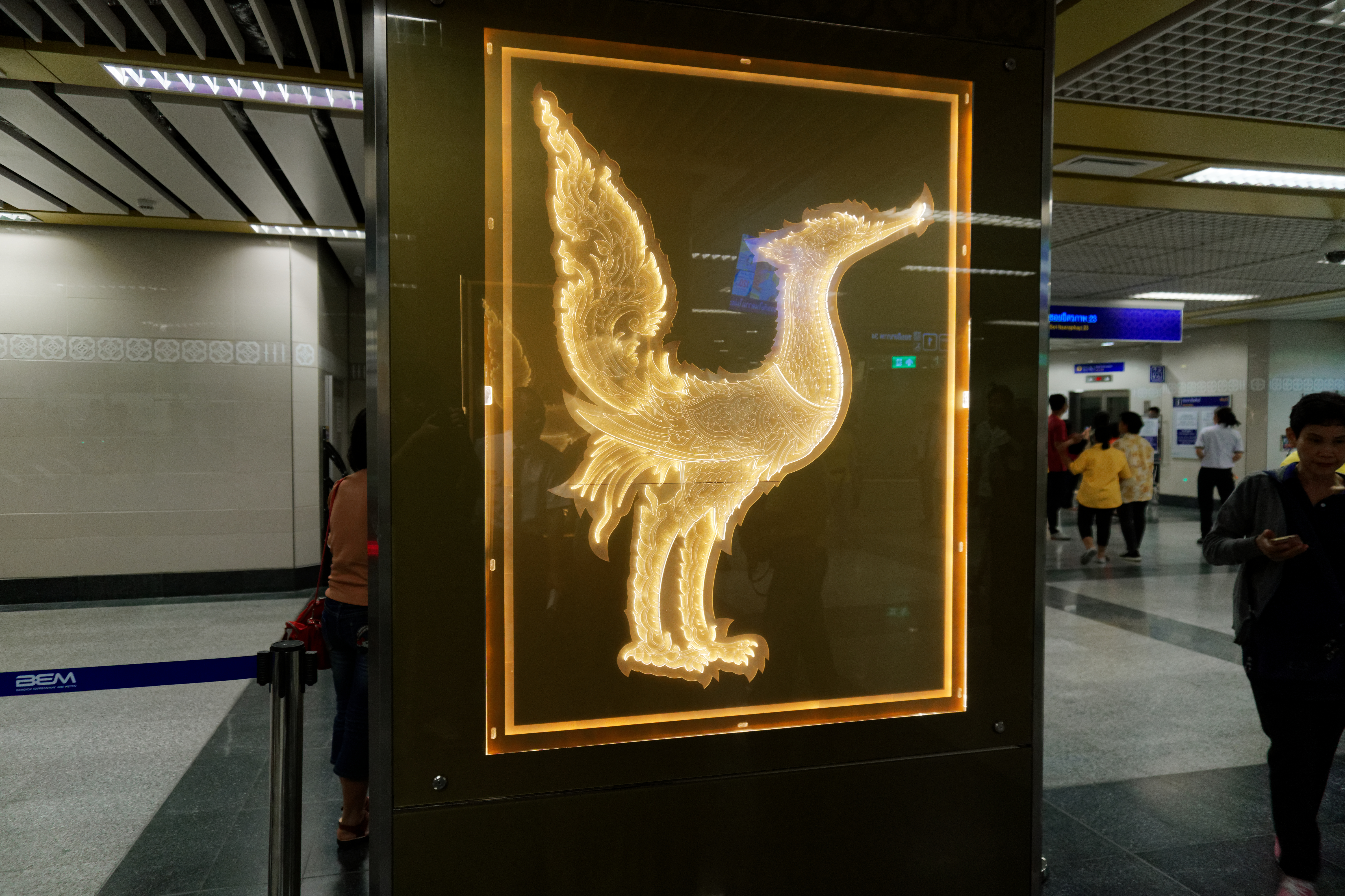 MRT Itsaraphap station: Decoration